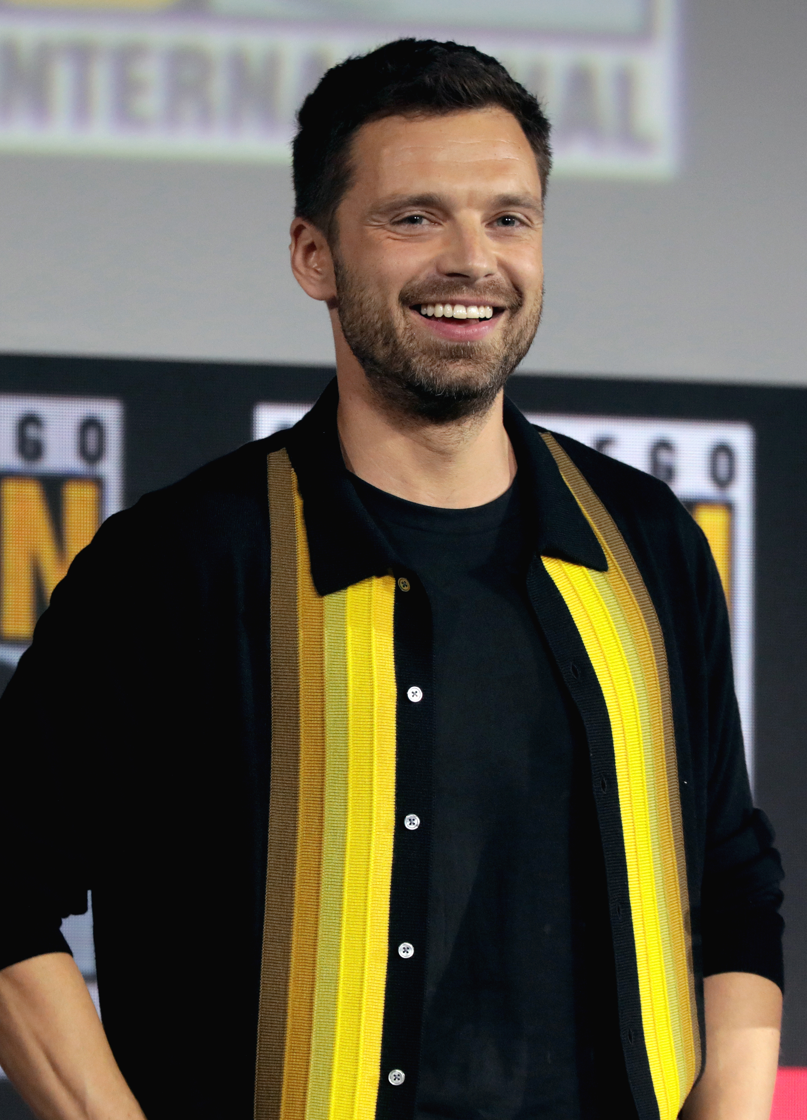 Sebastian Stan speaking at the 2019 San Diego Comic-Con International in San Diego, California.